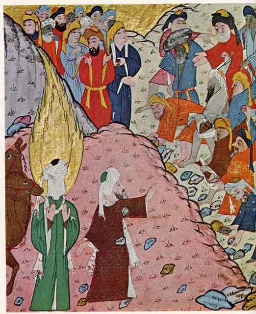 The Meccan Mob wanted to kill Muhammad by stoning, but Abu Bakr stops them. 16th century Turkish artists.